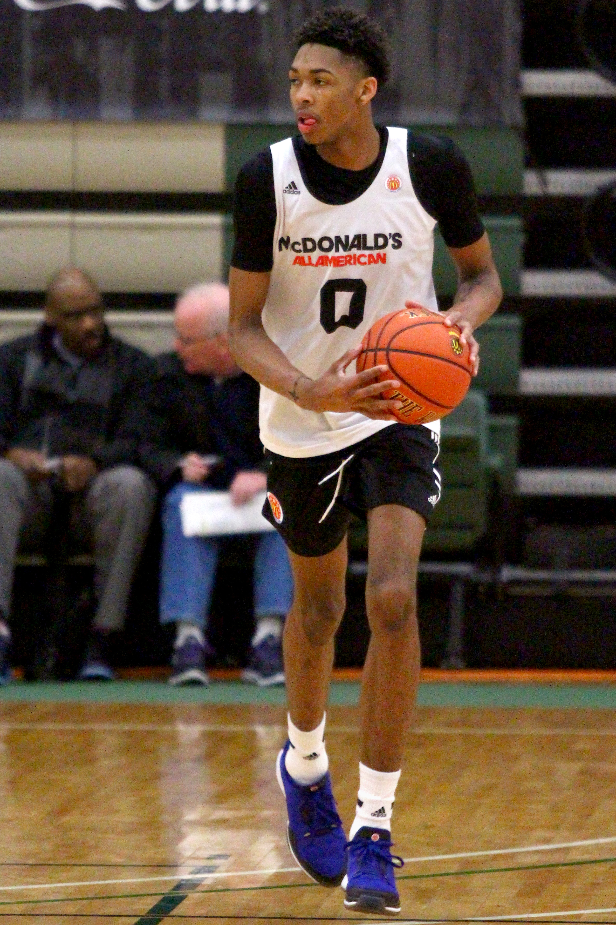 Brandon Ingram in the w:2015 McDonald's All-American Boys Game closed practice